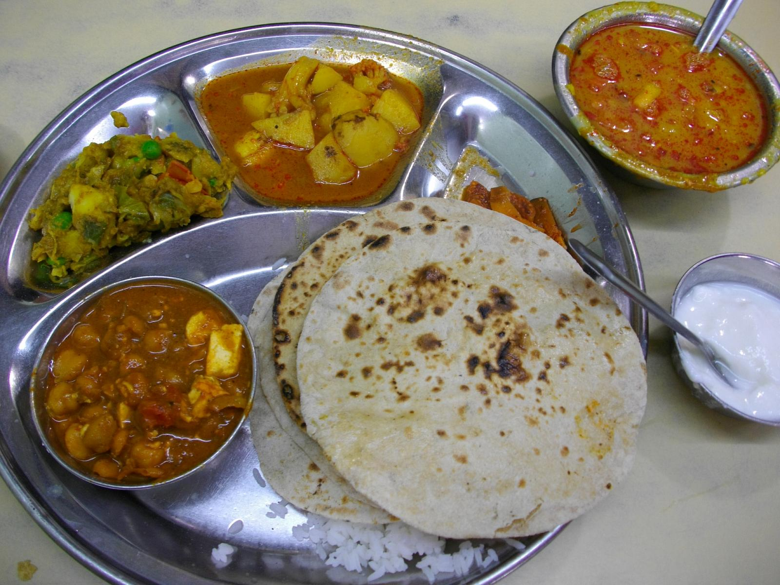 Veg. thali